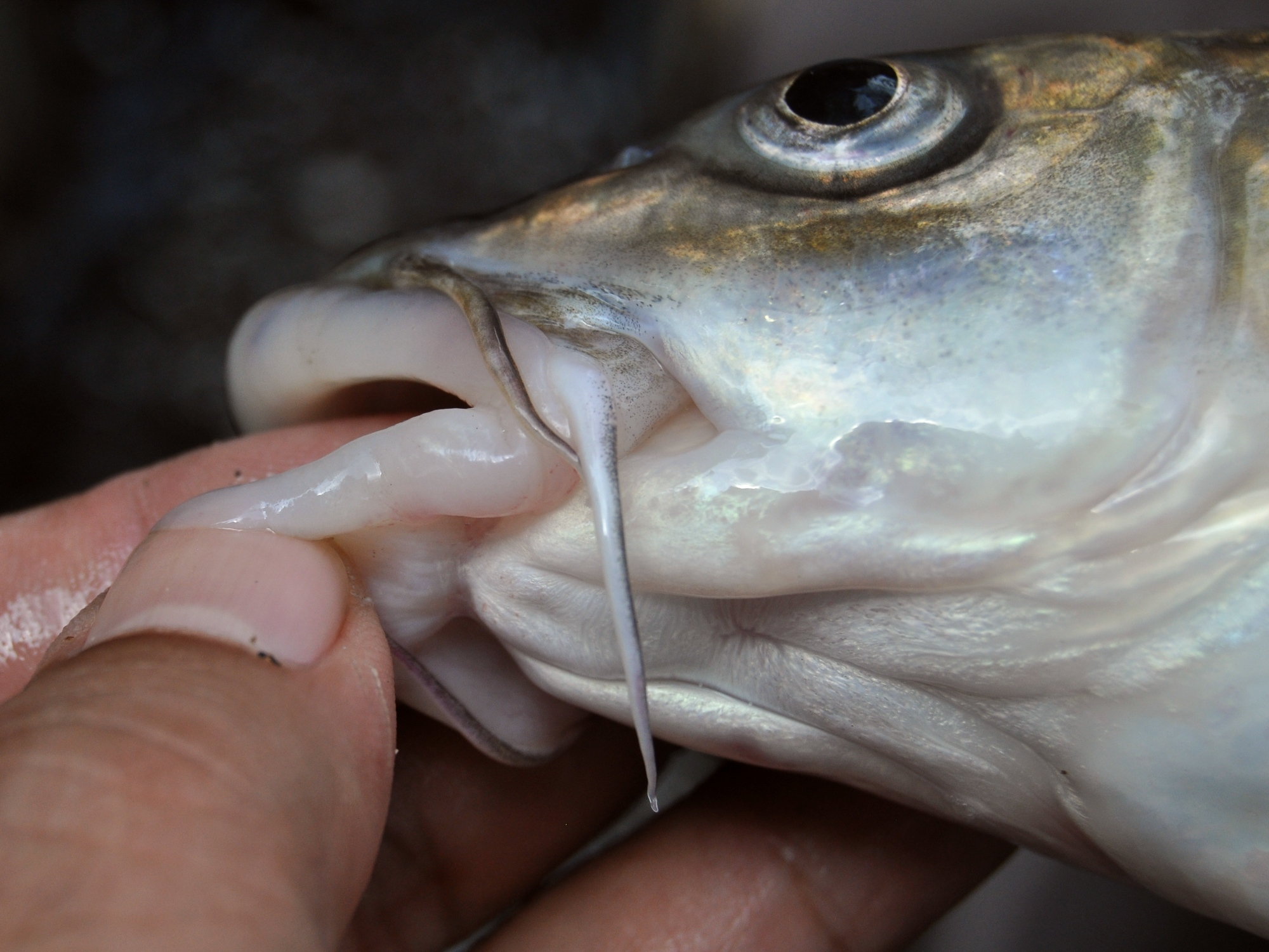 Tor tambroides, 267 mm SL (standard length); close up of chin region. From Jambi, Sumatra, Indonesia.